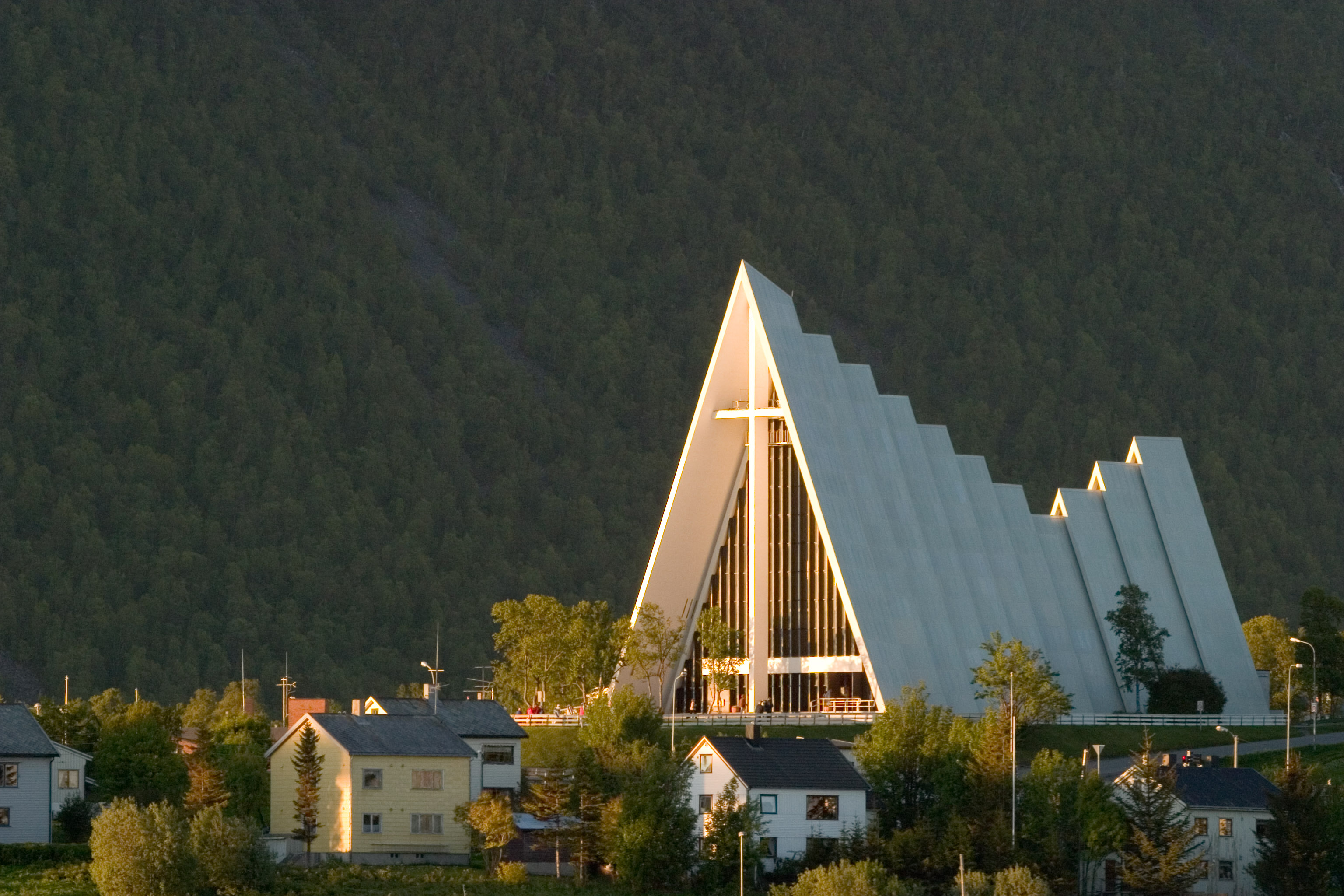 The striking Arctic Cathedral with surroundings in Tromsø, illuminated by the midnight sun with a mountain backdrop. Picture is taken at 20 minutes past midnight.